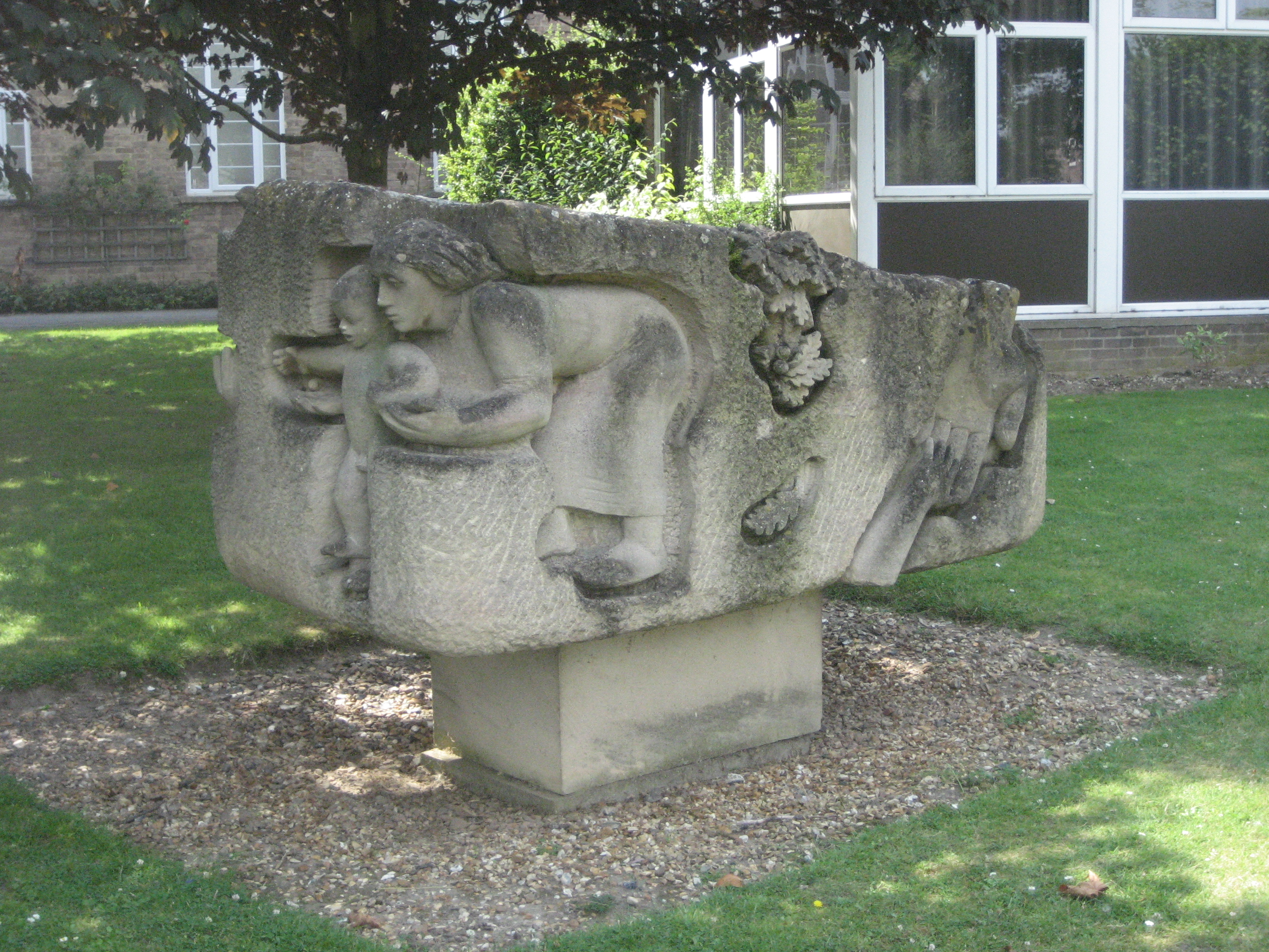 Sculpture Bottisham Stone (1987) made from Bath stone by Glynn Williams. Location: Bottisham Village College, Cambridgeshire, England (UK)